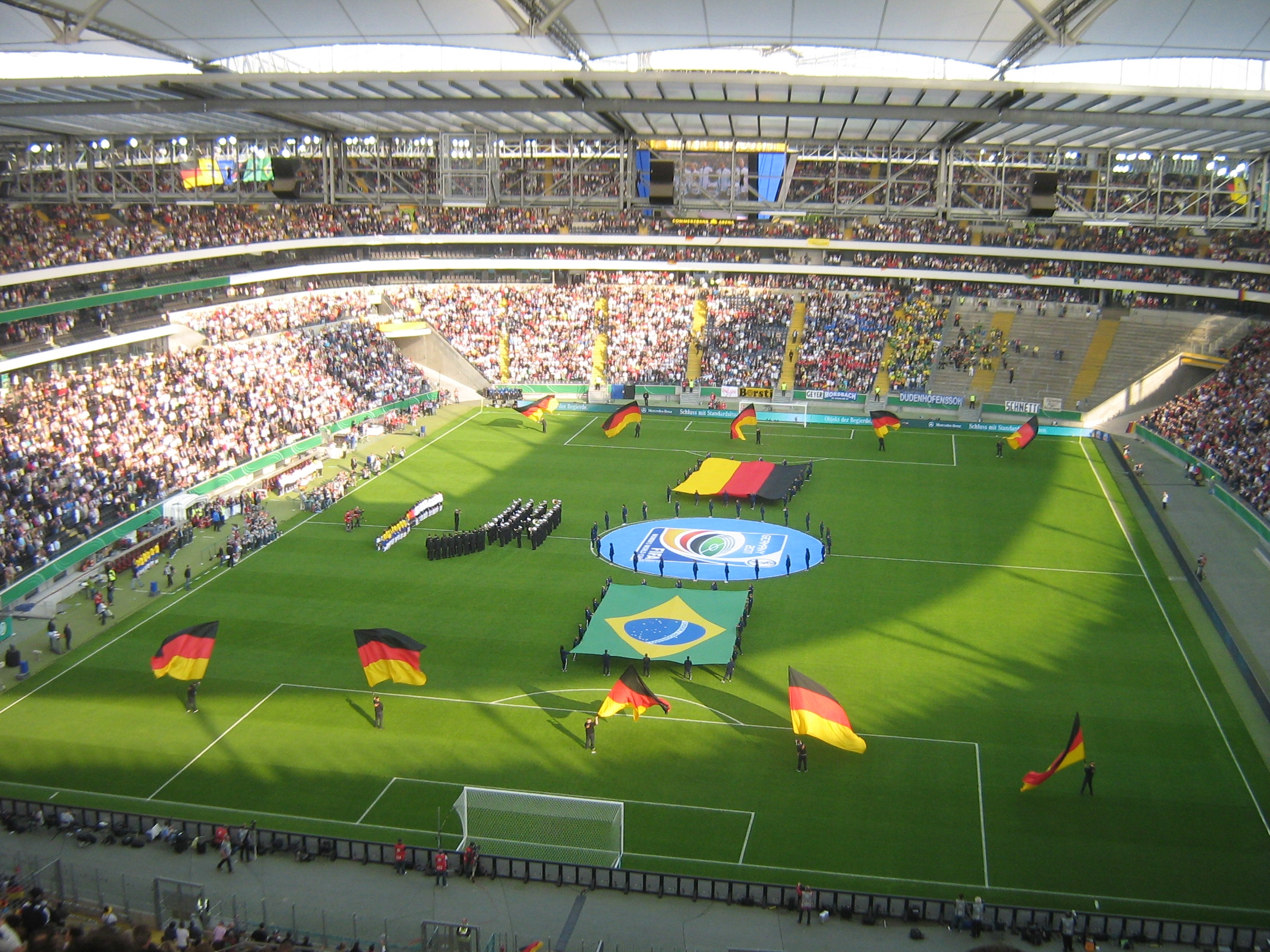 Germany women vs. Brazil women, before a crowd of 44,825. Frankfurt April 22, 2009